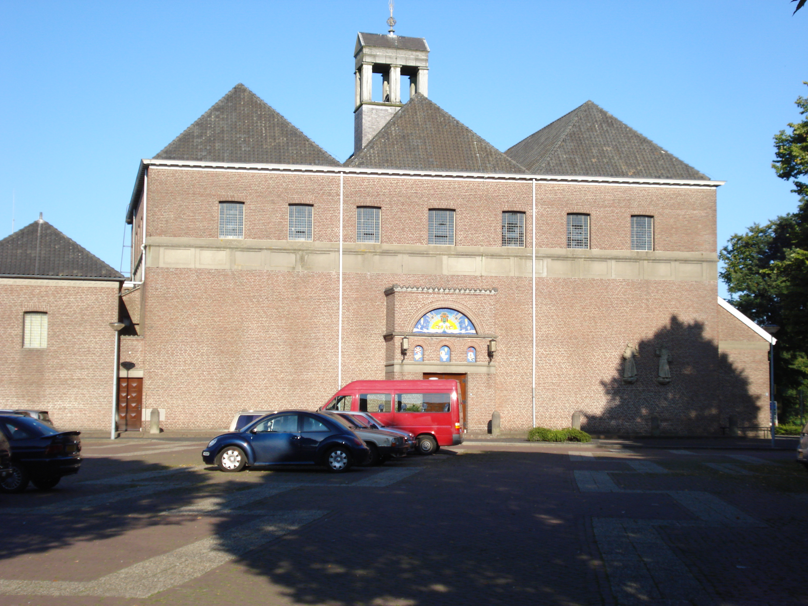 Babberich (Zevenaar, Gld, NL) church